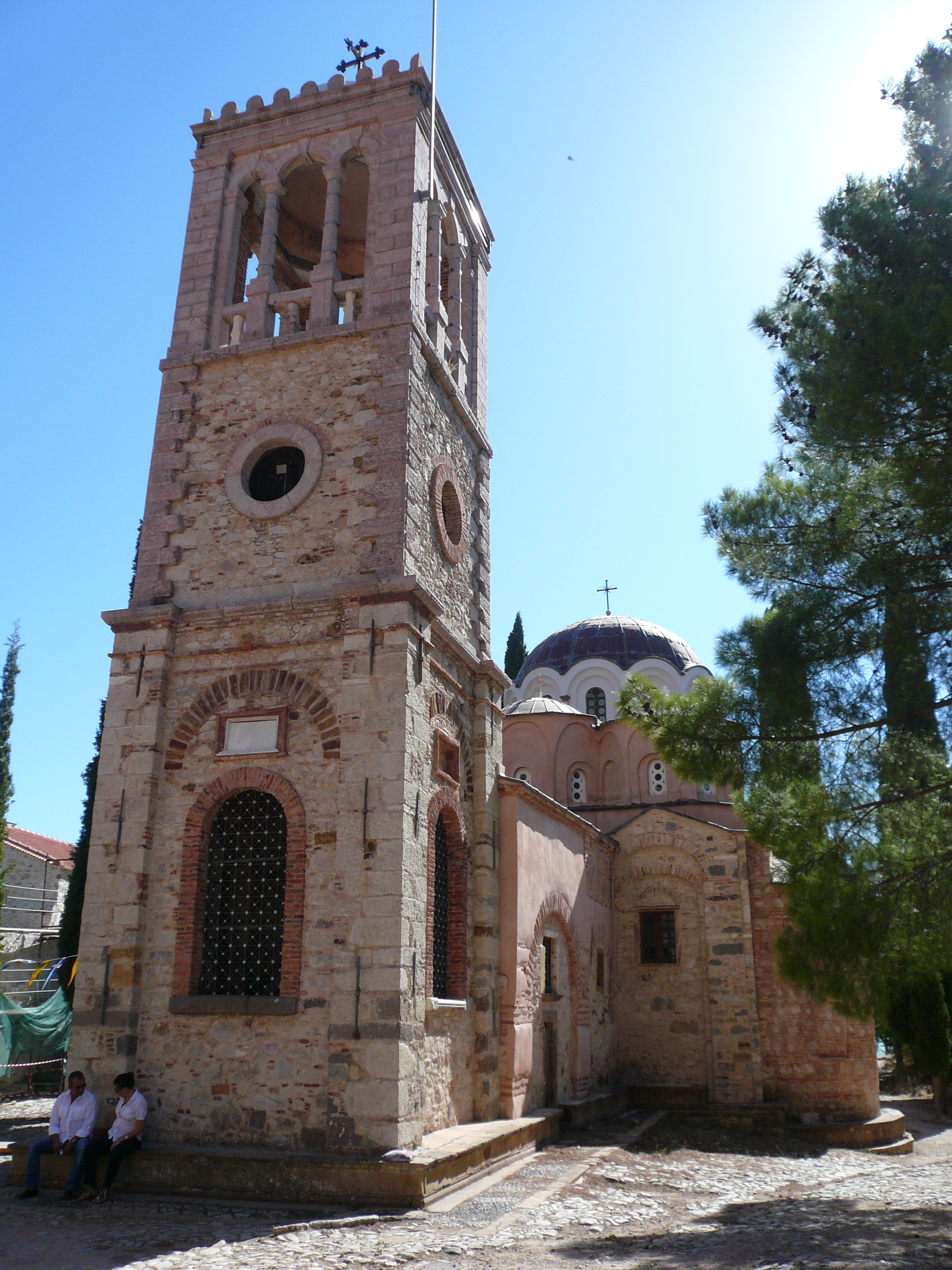 Nea Moni of Chios - Bell Tower«Νέα Μονή Χίου»